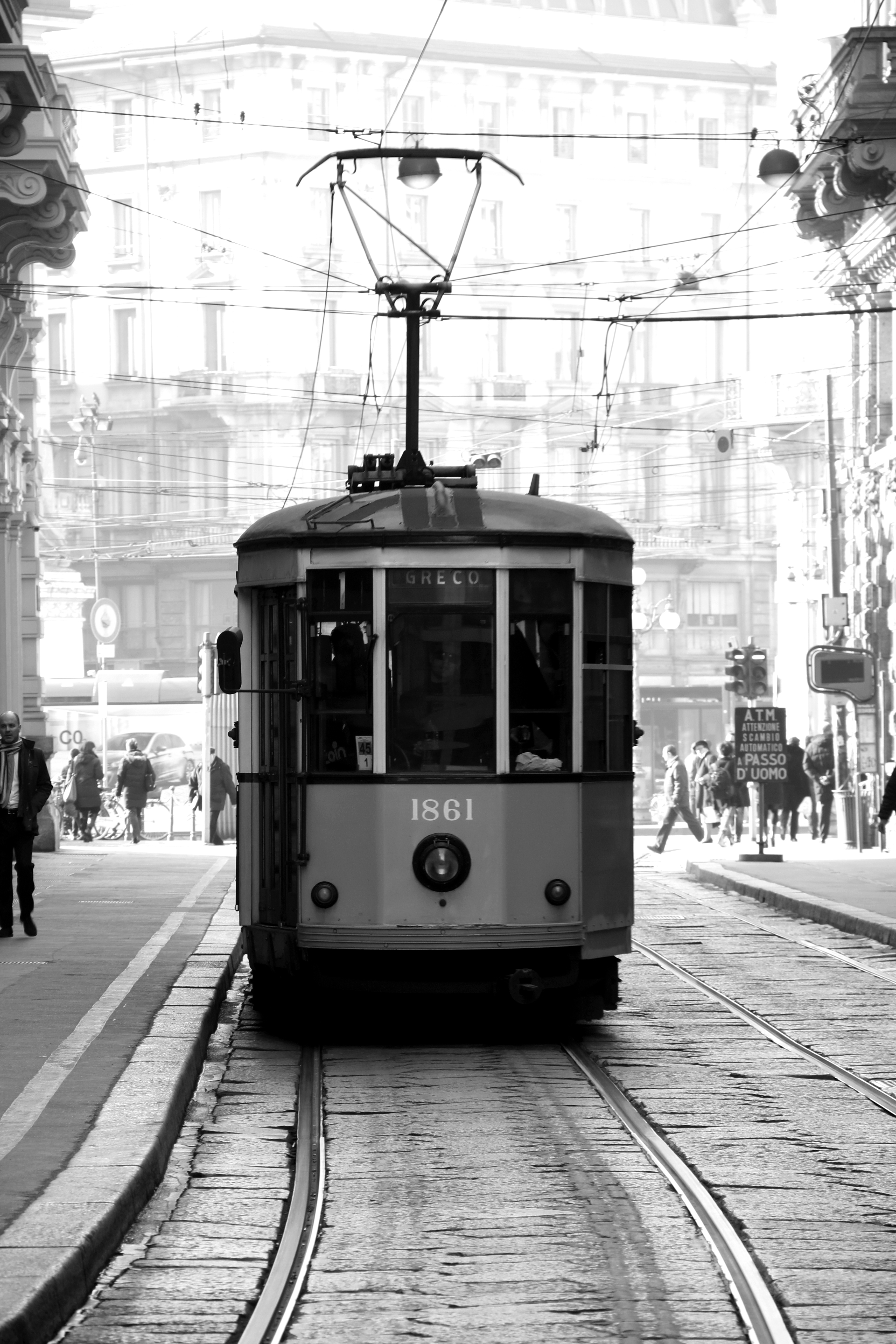 Tram in Milan, Italy photographed in black and white